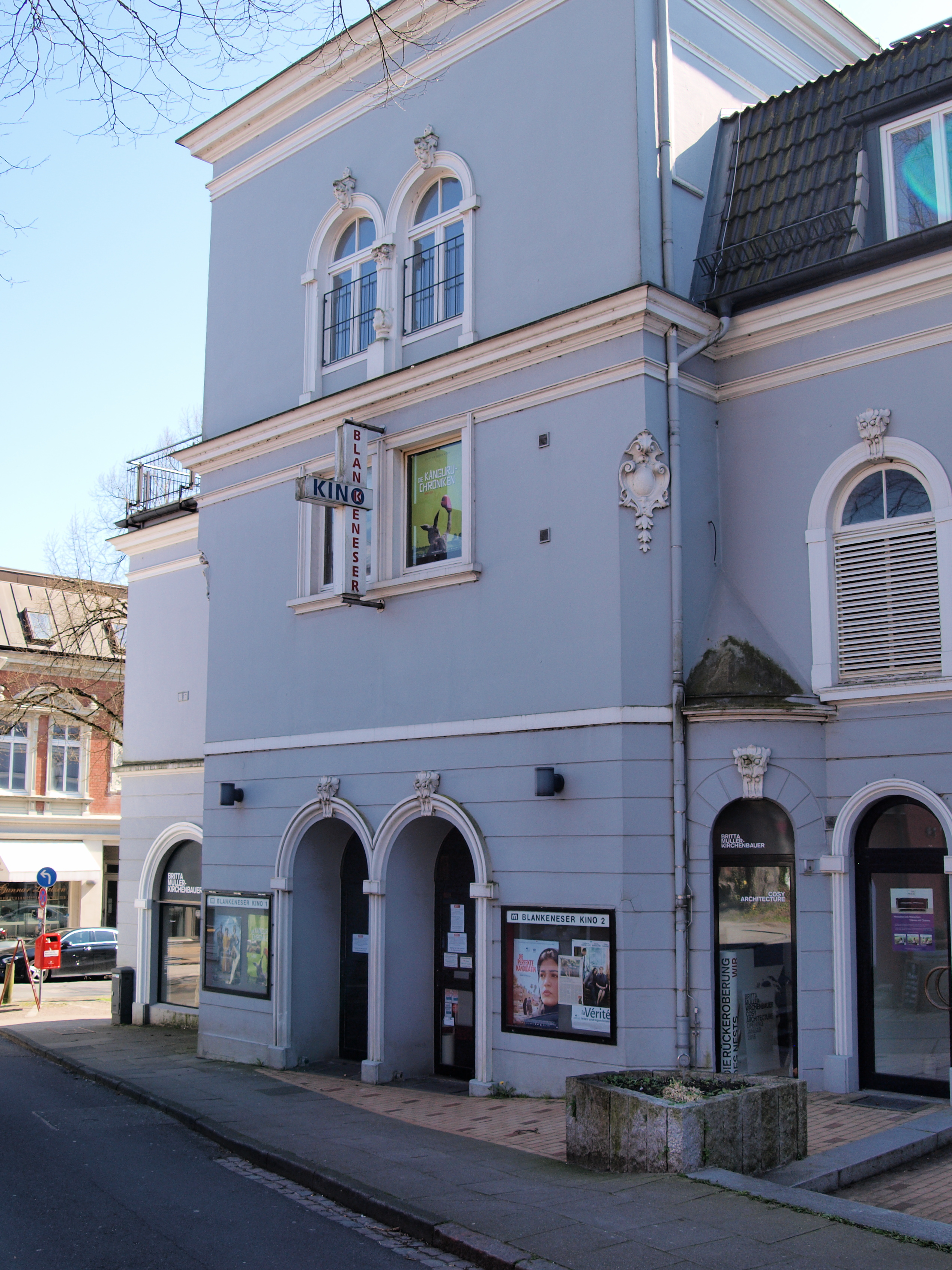 Blankeneser Kino at Blankeneser Bahnhofstr. 4, corner to Am Kiekeberg, 22587 Hamburg-Blankenese, Germany. Temporarily closed due to the COVID-19 pandemic.